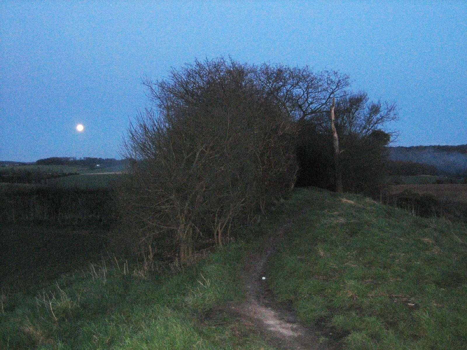 Uploaded by Author